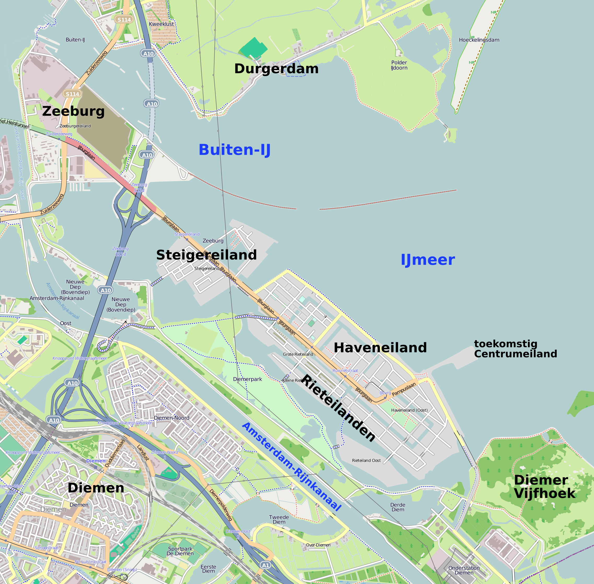 Map of the Amsterdam quarter of IJburg, in its state of 2011